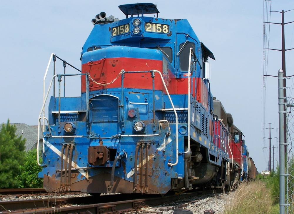 Chesapeake and Albemarle Railroad, 2158 GP7u, Chesapeake, VA.